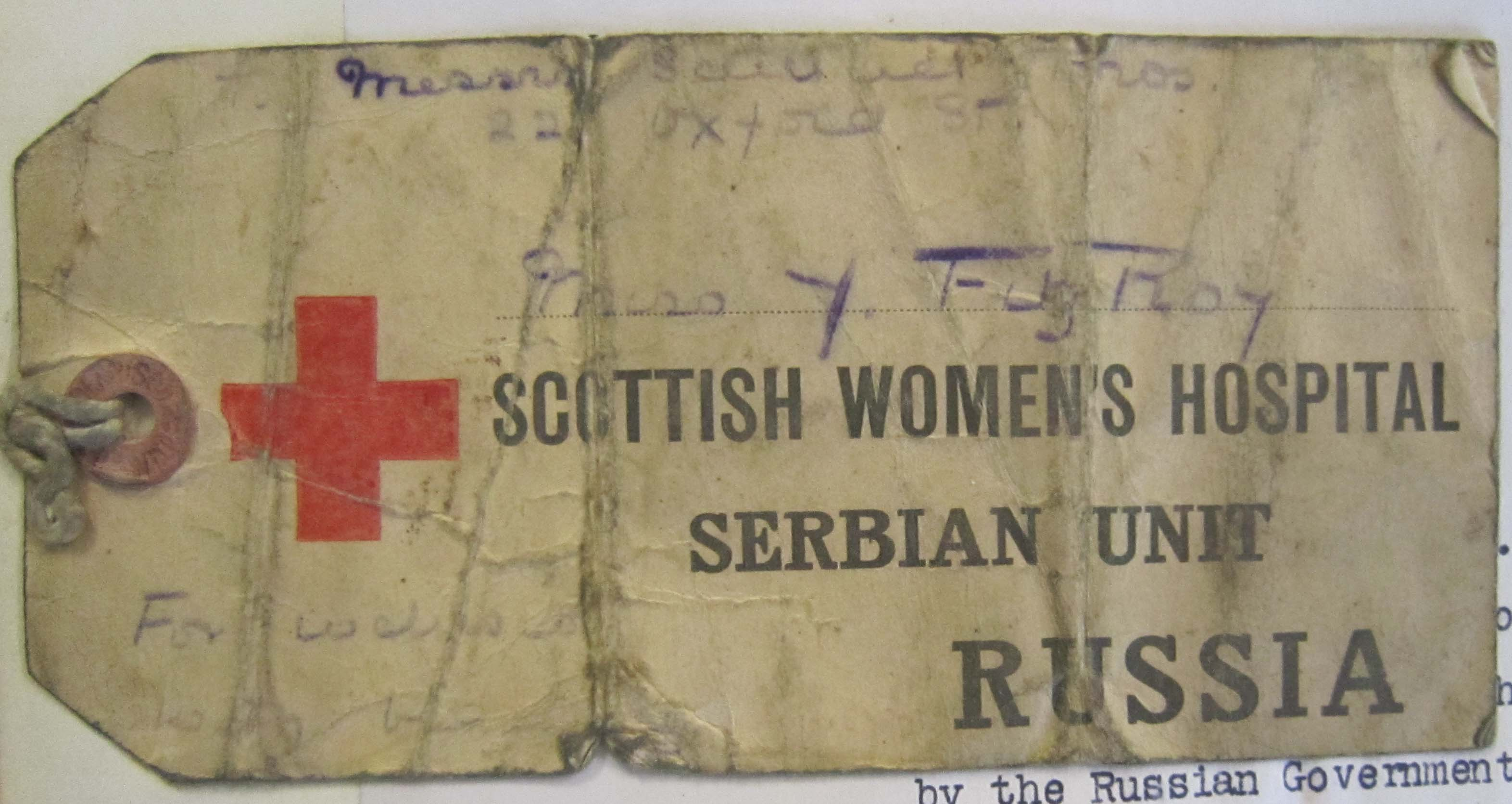 Luggage label from Yvonne’s journey to serve with the SWH on a captured Austrian ship (LHB8/12/8). According to her memoirs, her luggage consisted of ‘one kit-bag, one haversack, and a rug.’